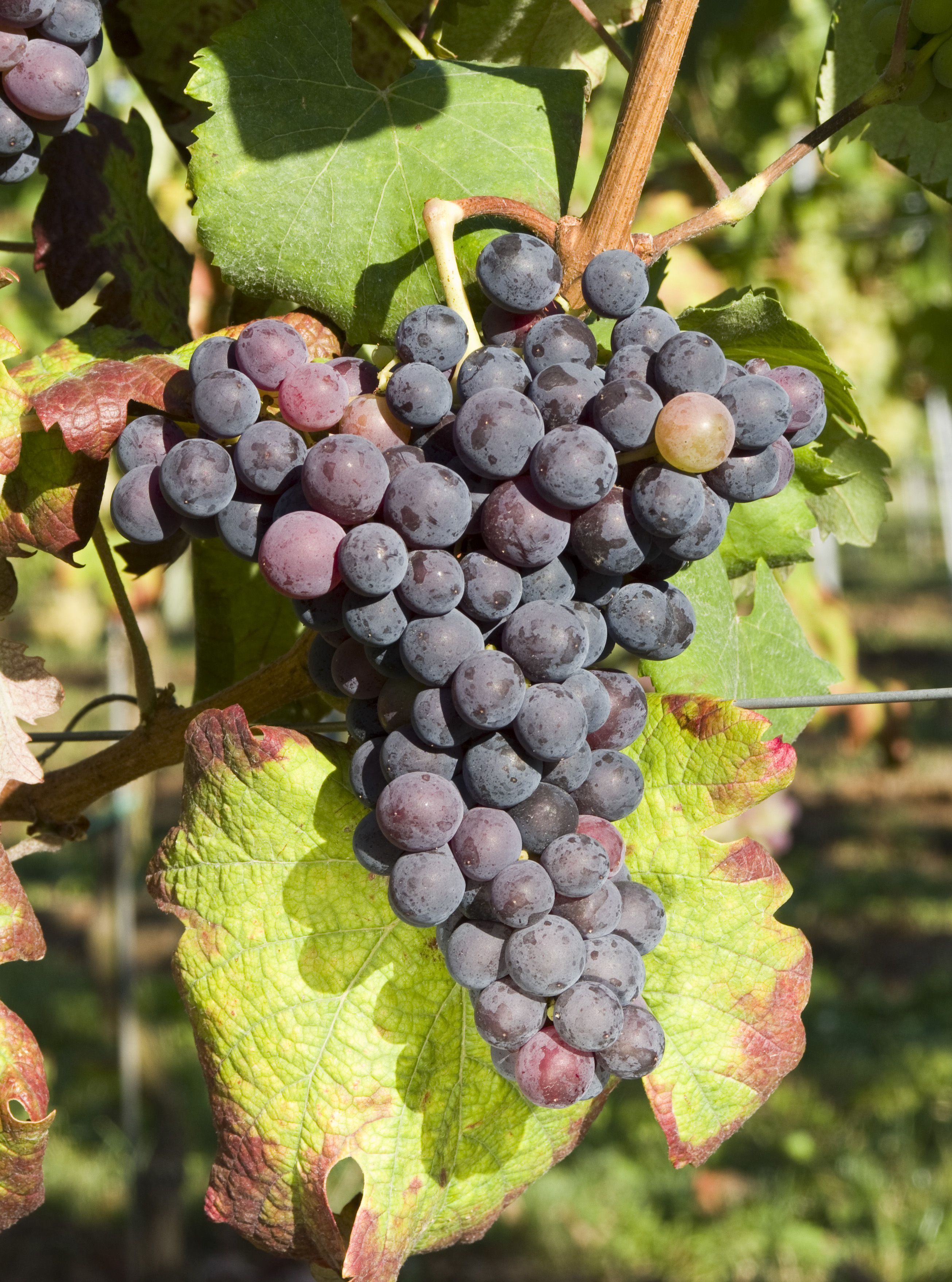 A grape of the Cannaiolo Nero variety